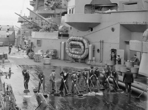 Sailors washing down the decks on the British battleship HMS Rodney.